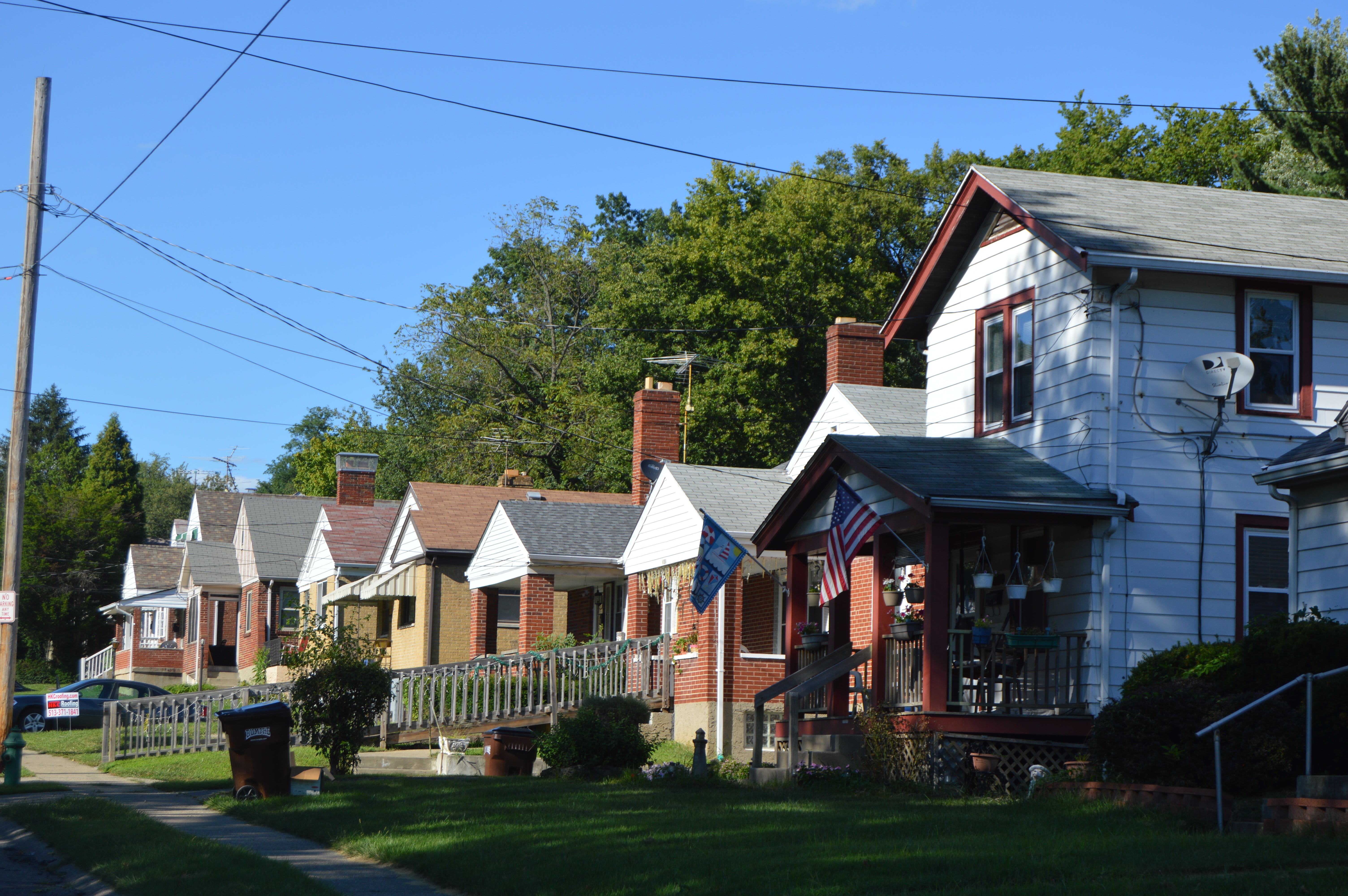 Houses on the eastern side of Hammel Avenue, seen looking north from the Chuck Harmon Way intersection, in Golf Manor, Ohio, United States.